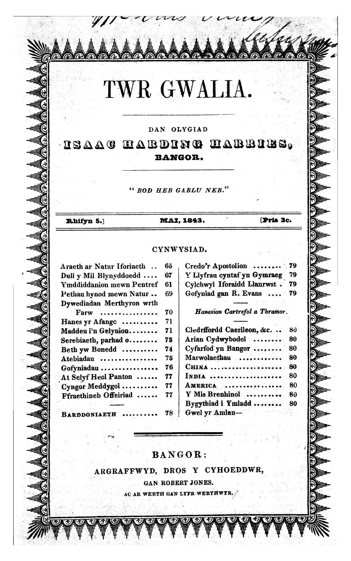 A monthly Welsh language general periodical that published articles on a number of subjects including religion, astronomy, music, philosophy and temperance, alongside poetry and foreign and domestic news. The periodical was edited by the Congregationalist minister, Isaac Harding Harries (d. ca.1868) and Walter W. Jones until February 1843, and subsequently by only Harris.